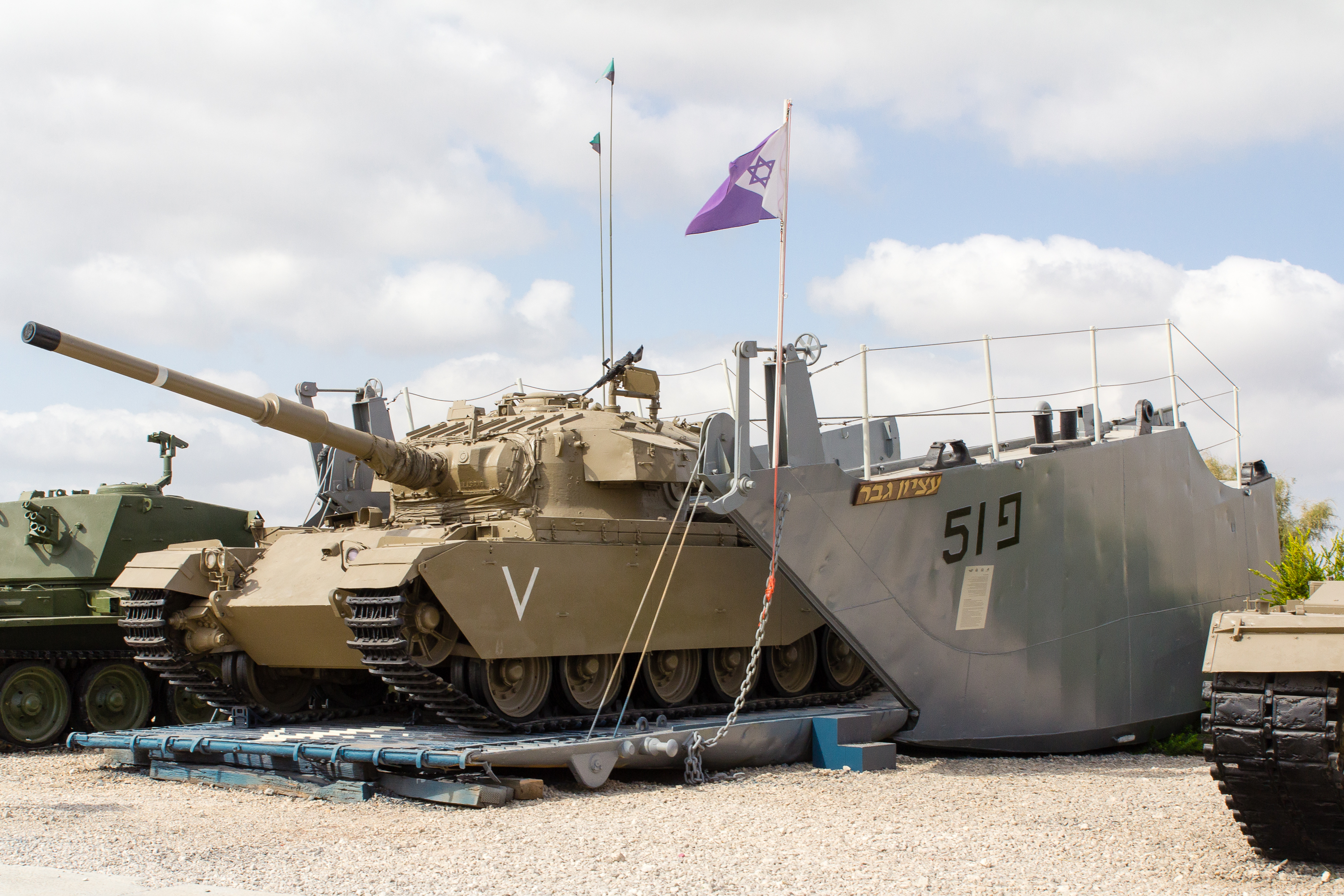 Centurion Shot Kal A disembarking from Landing craft P-51 "Etzion Gever" at the Yad LaShiryon museum, Latrun, Israel